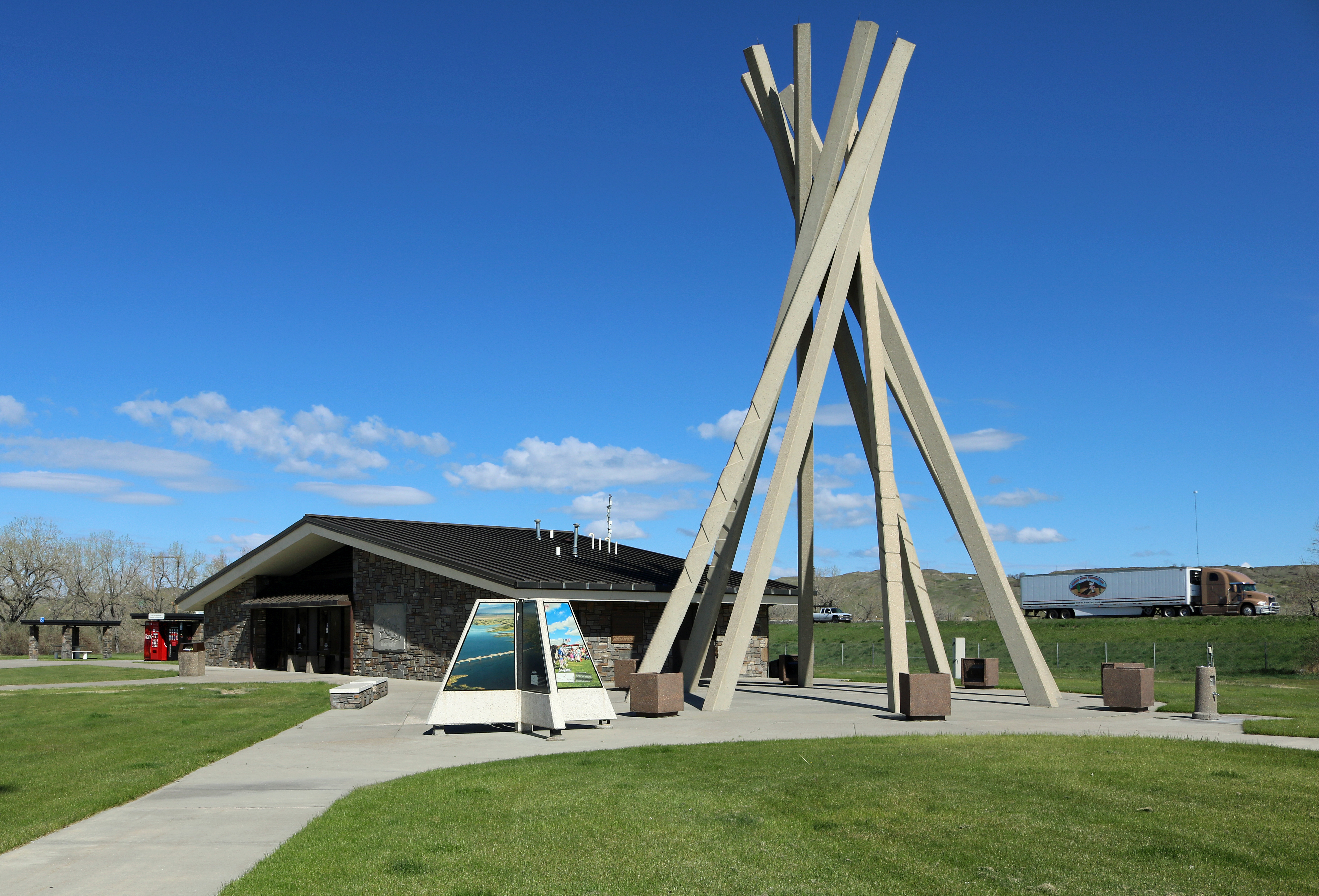 The Wasta Rest Stop Tipi-Eastbound, located off Interstate 90 near Wasta, South Dakota. The Tipi (teepee) is listed on the National Register of Historic Places.